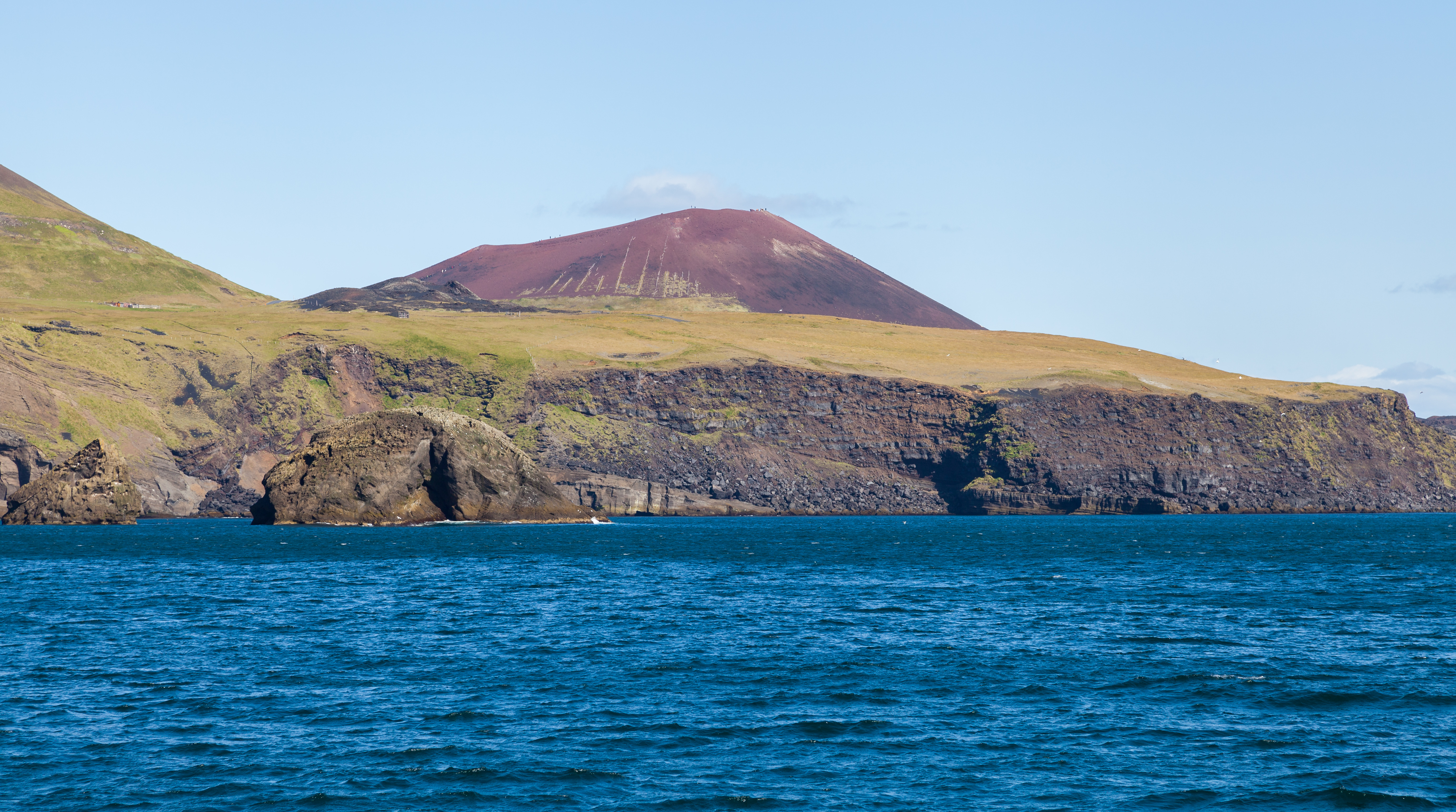 Cliffs of Heimaey, Westman Islands, Suðurland, Iceland